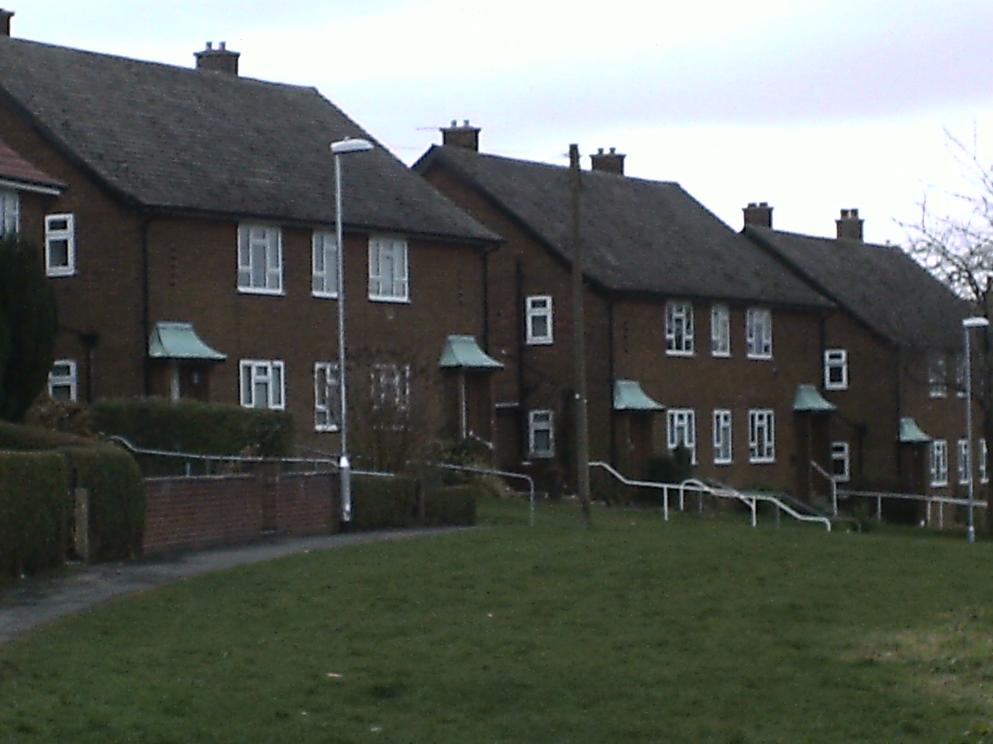 Latchmere View in Moor Grange, Leeds, West Yorkshire. The buildings shown are council flats.